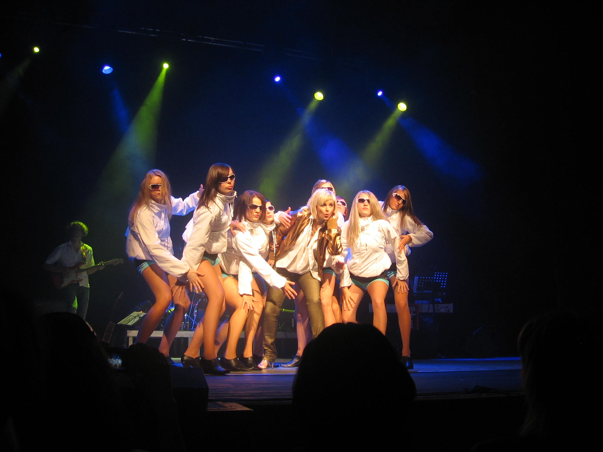 Iveta Bartošová, performance in Prague, June 11th, 2008